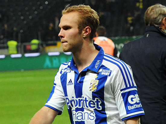 Gustav Engvall, IFK Göteborg